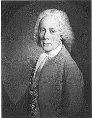 Portrait of Sir Alexander Dick, 3rd Baronet (1703-1785)